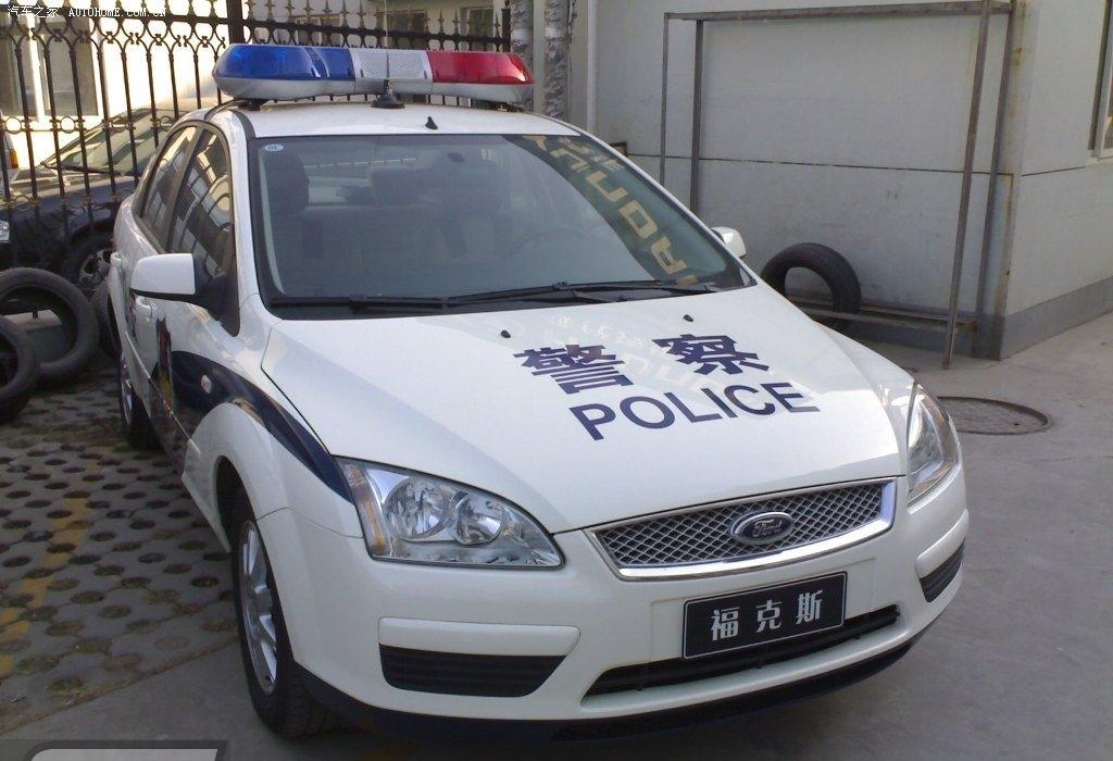 A Chinese Ford Focus Police car